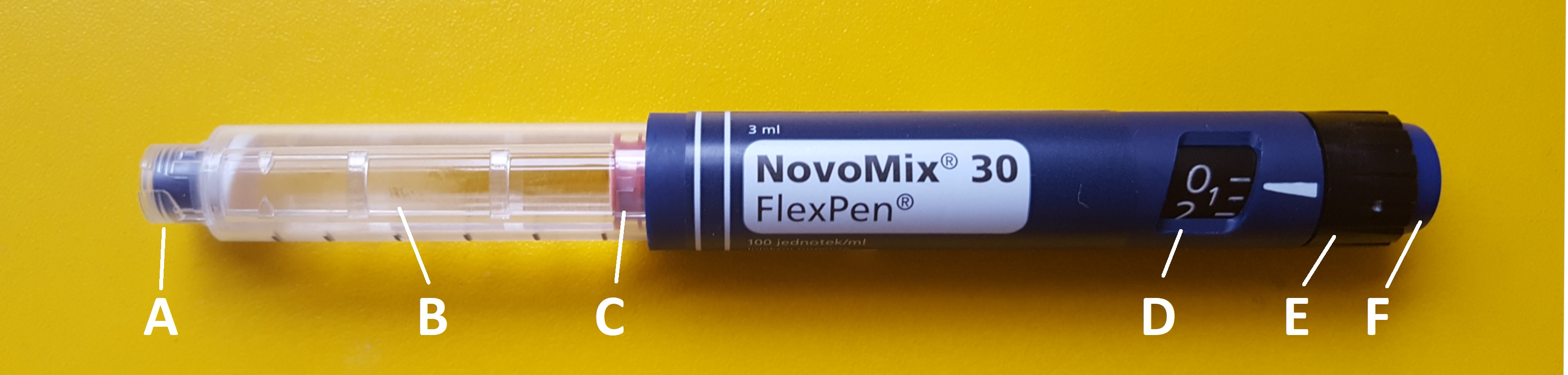 This file was derived from: Insulin analog 100 IU-1ml novomix pen yellow background (02).jpg An insulin pen with labels as follows: A) tip; B) medication chamber; C) plunger; D) dose window; E) dose selection dial; F) plunger button